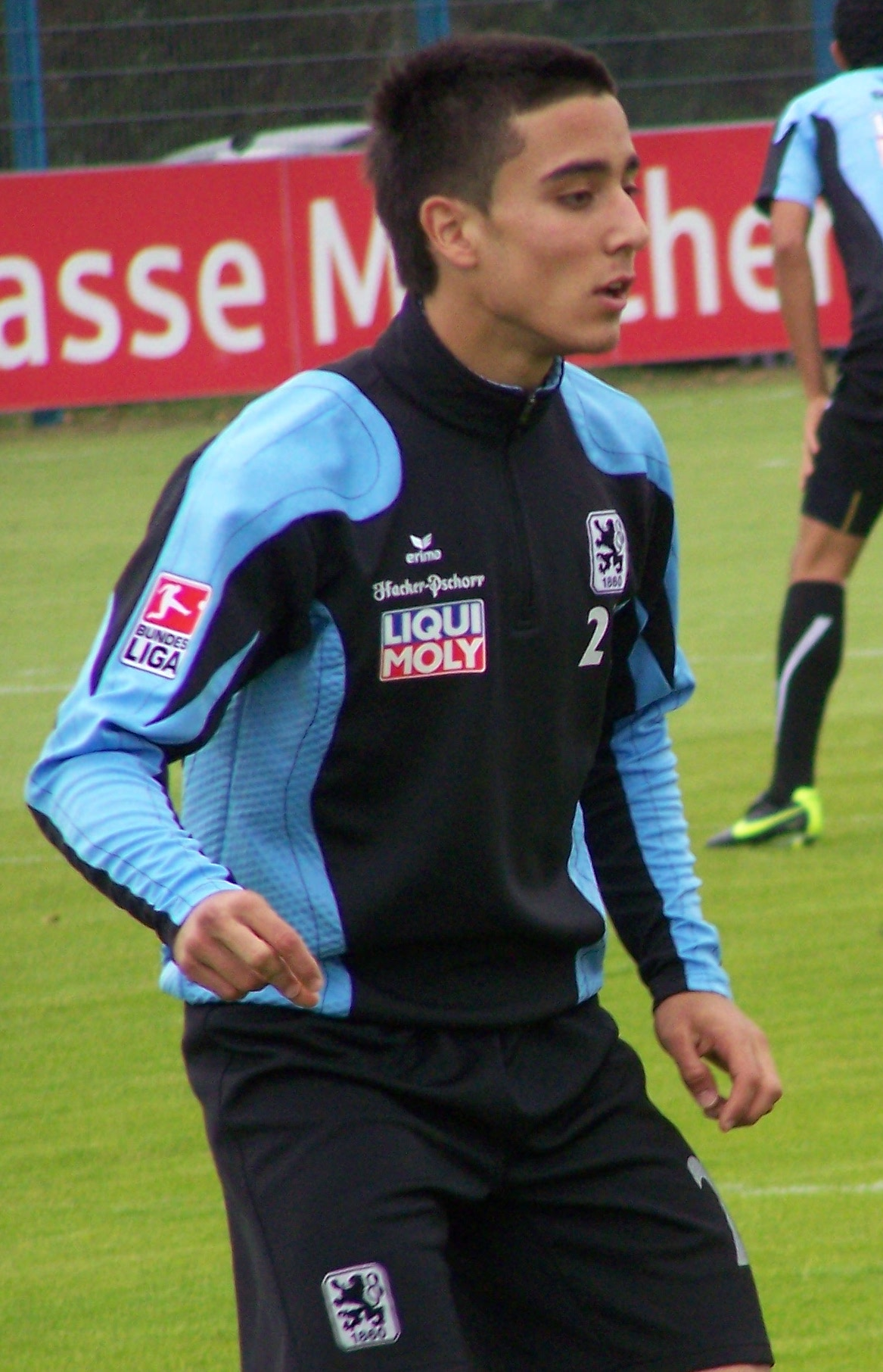 Tarik Camdal, 1860 munich, training